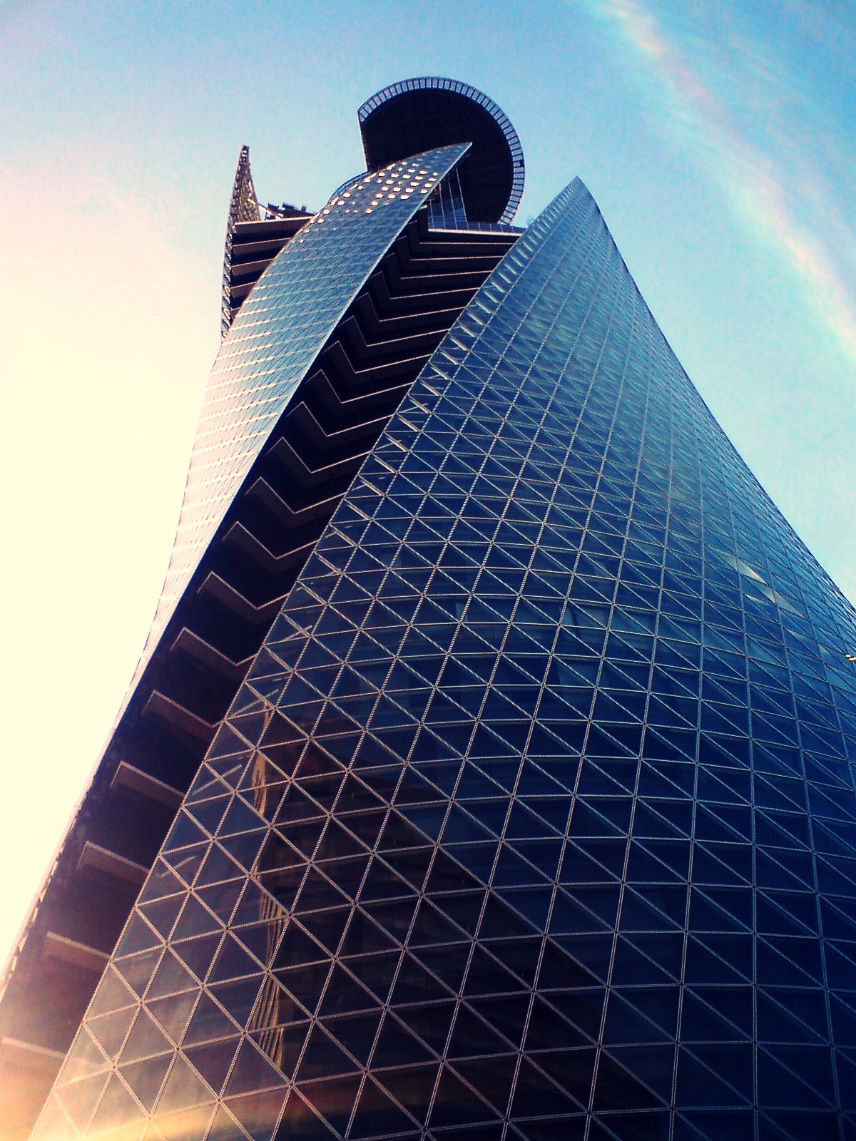 Mobile camera shot while waiting for the green light.